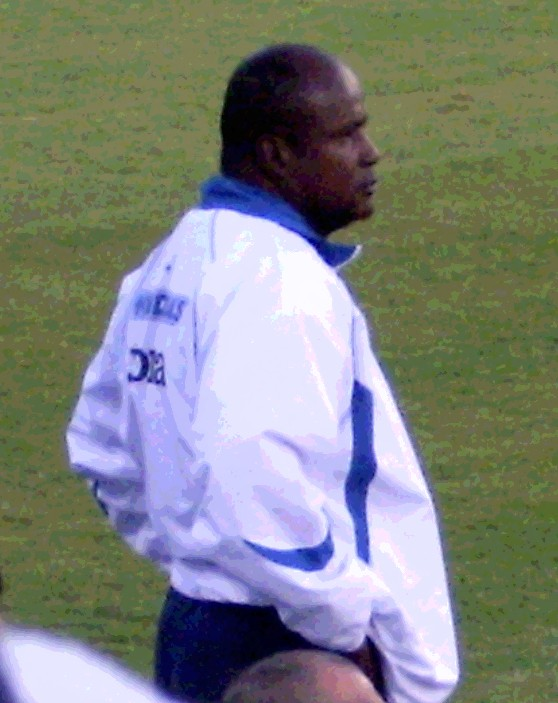 Foto de Gilberto Yearwood As Honduras Olympic Coach in 2008